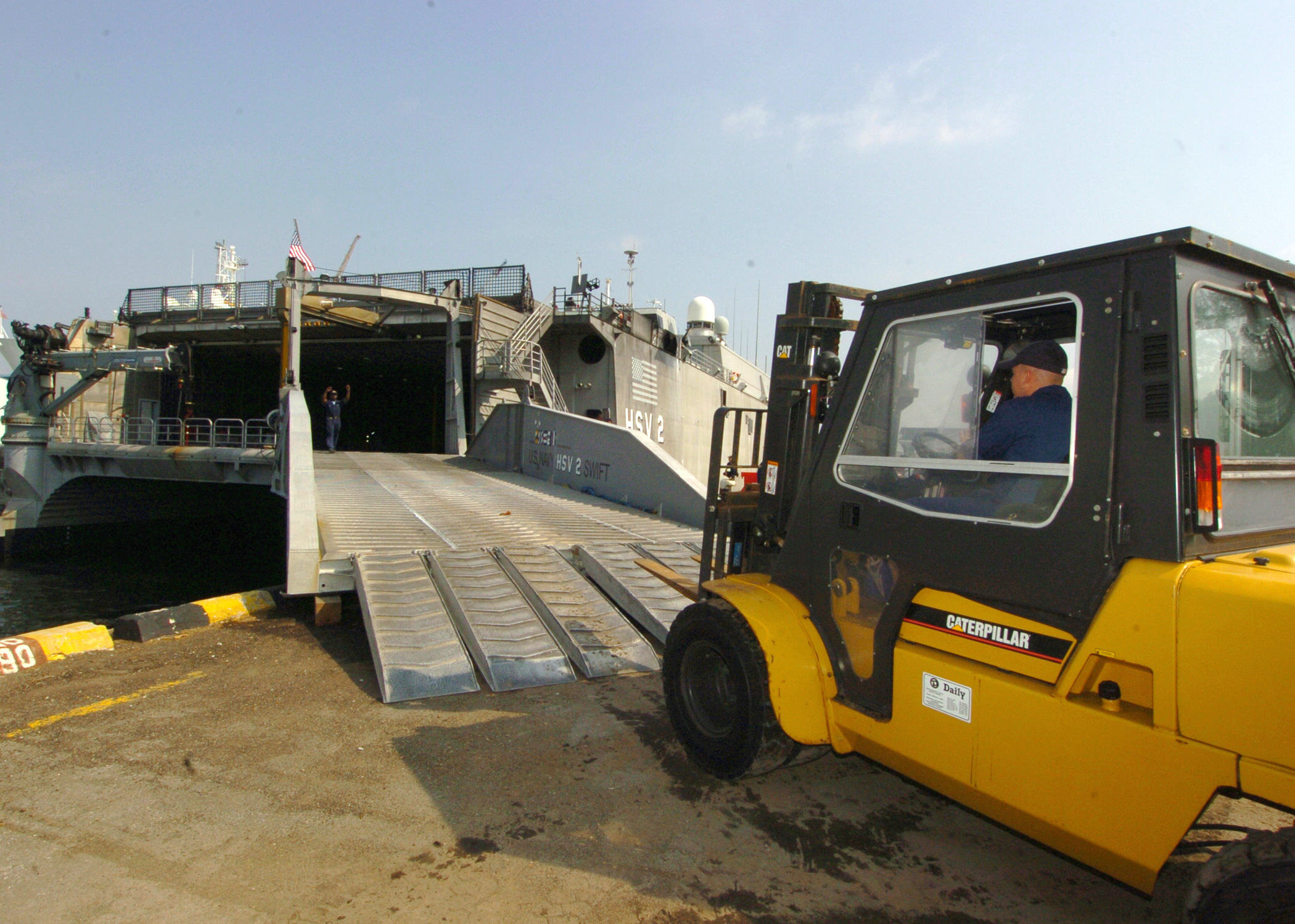 Singapore (Jan. 30, 2005) - A forklift offload supplies from the High Speed Vessel Two (HSV 2) Swift in Singapore. HSV 2 Swift is carrying humanitarian aid supplies, including medicine for Military Sealift Command hospital ship USNS Mercy (T-AH 19). Mercy has been forward deployed in support of Operation Unified Assistance, the humanitarian operation effort in the wake of the tsunami that struck Southeast Asia. U.S. Navy photo By Photographer's Mate 3rd Class Rebecca J. Moat (RELEASED)